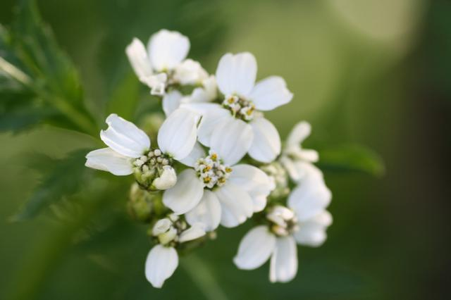 (en) Broad-leaved Yarrow (Achillea macrophylla), a photography originating of the internet site The accord of the autor, H. Brisse, is here. (fr) Achillée à grandes feuilles (Achillea macrophylla), une photographie issue du site internet L'accord de l'auteur, H. Brisse, se situe ici. (de)Großblättrige Schafgarbe, (it)Millefoglio delle radure